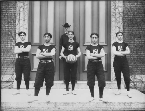 Historical photo of the first men's basketball team at St Mary's Institute (later, the University of Dayton) from 1903. Captioned As {}